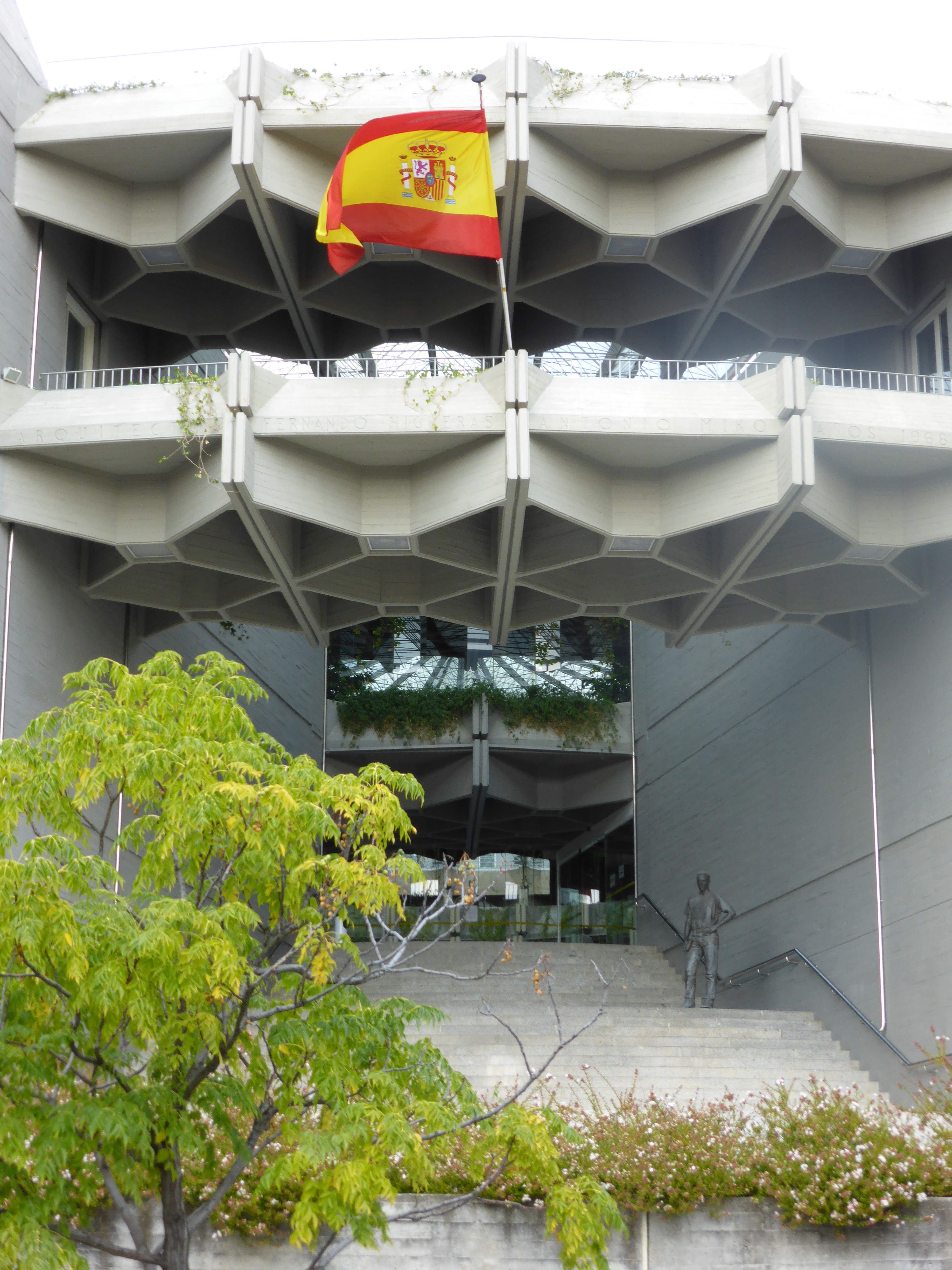 The Institute of Cultural Heritage of Spain (IPCE) is located in Madrid, in the University City (El Greco Street, no, 4; postal code 28040). In this building, works of art are restored, there is a specialized library, and several photographic archives preserve important historical collections, including the original collodion glass negatives of the nineteenth-century photographer J. Laurent. The institute is within the Education, Culture, and Sports Ministry of Spain.